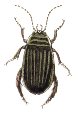 Acilius sulcatus female, from Calwer's Käferbuch, Table 7, Picture 4. Taxonomy was updated to 2008, using mostly the sites Fauna Europaea and BioLib. Please contact Sarefo if the determination is wrong!